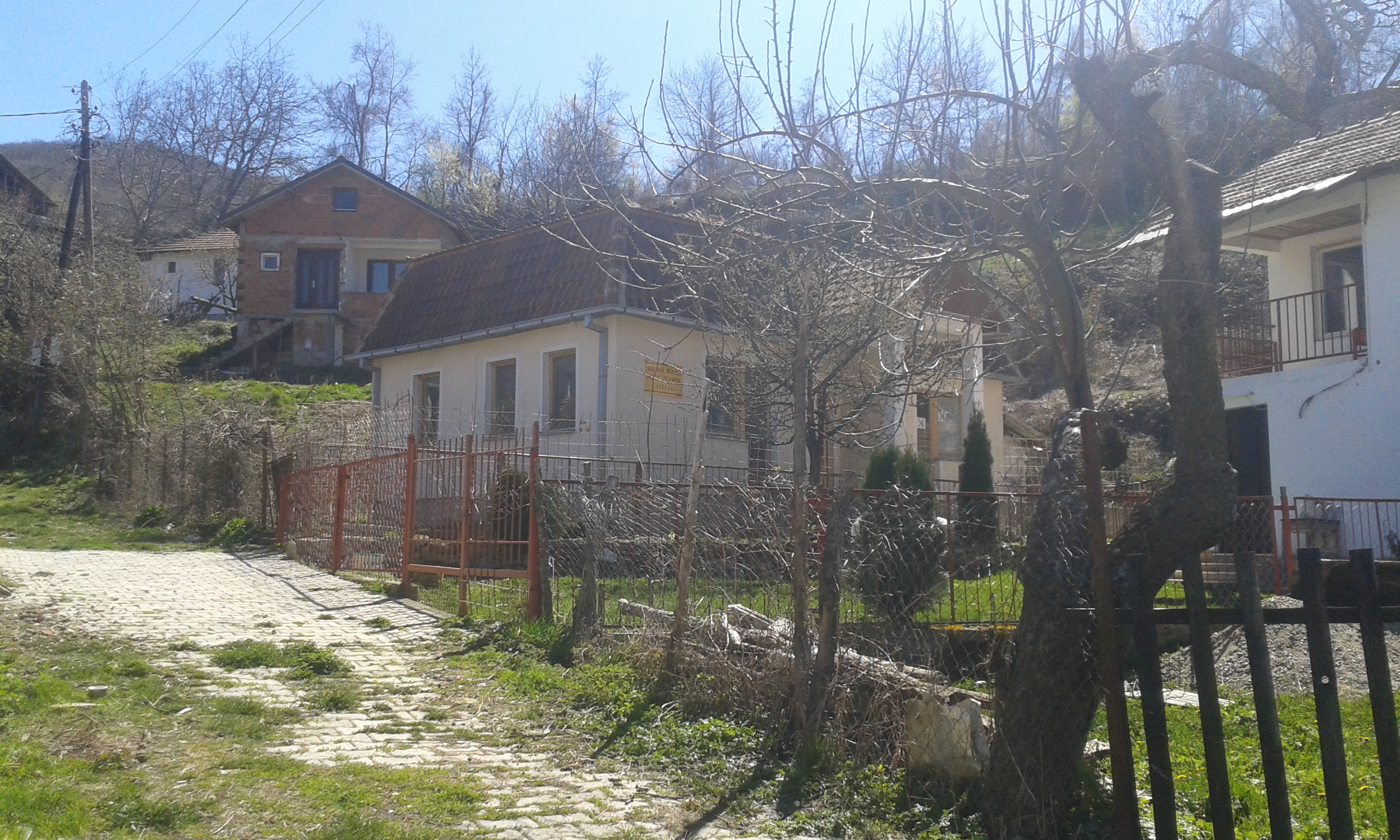 Municipal building in the village Lukovica